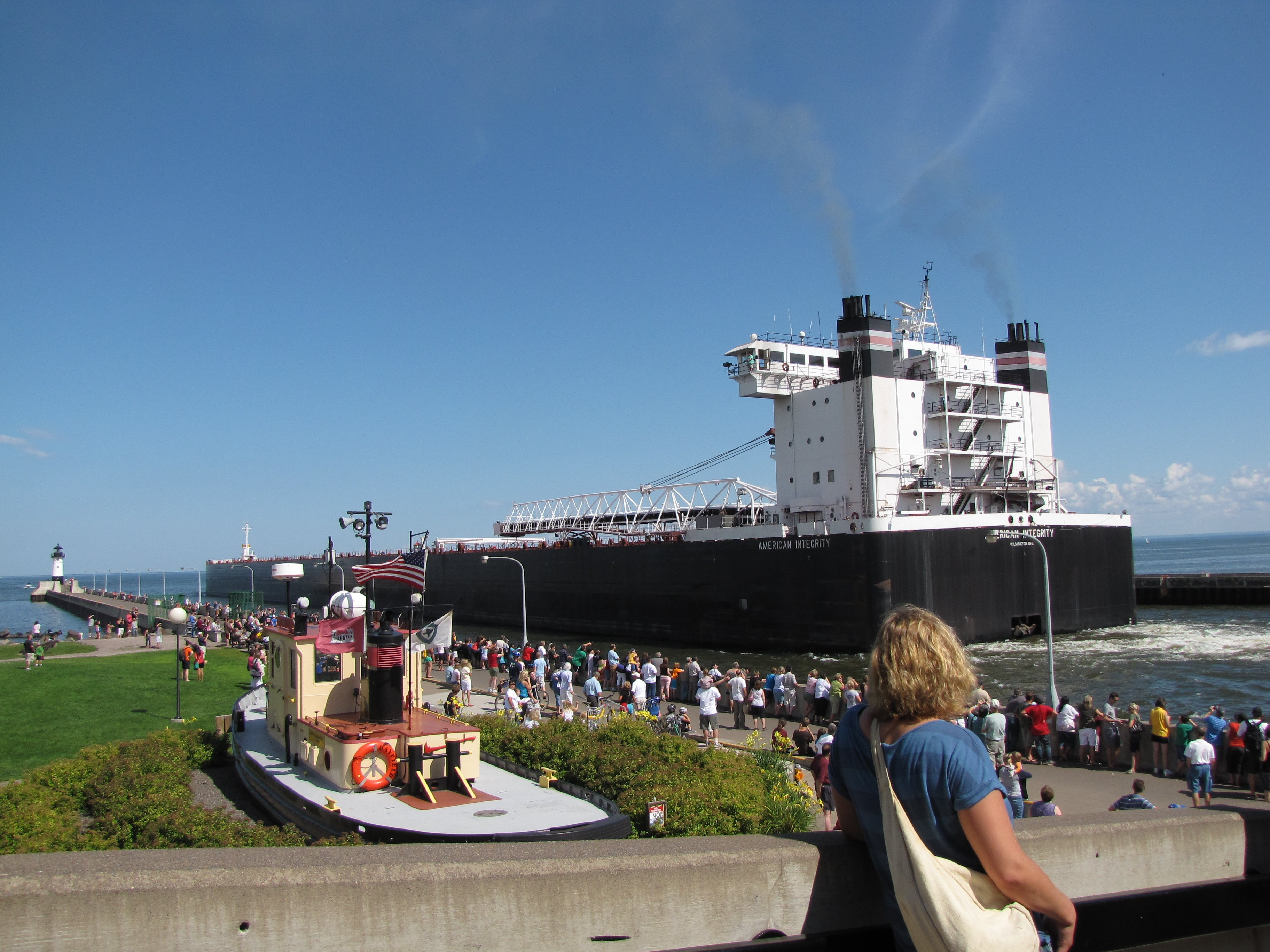 View from the Lake Superior Maritime Visitor Center looking out at the Duluth Shipping Canal.